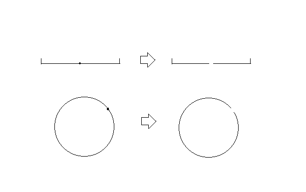 Cut-points in intervals and circles